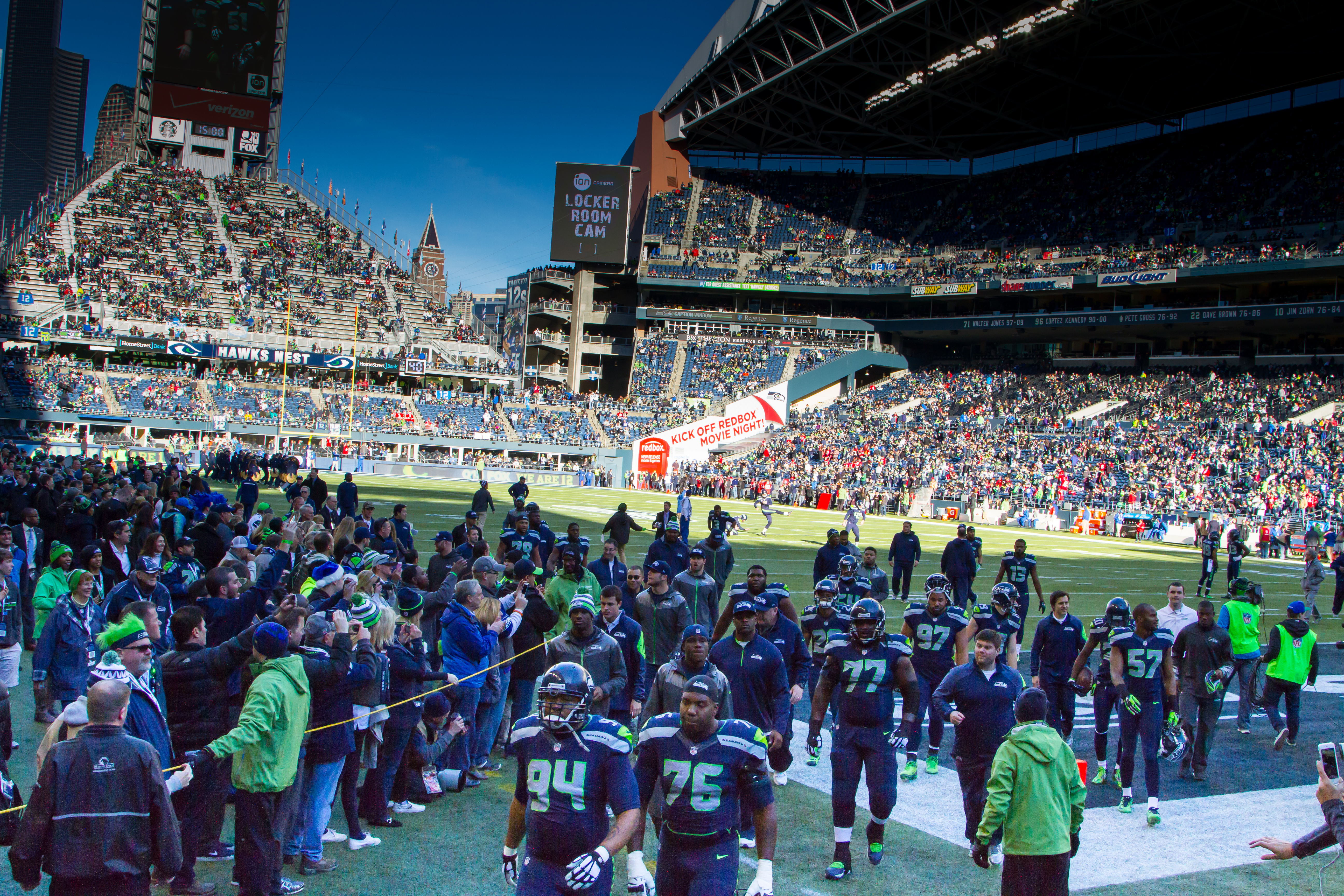 49ers at Seahawks 2014